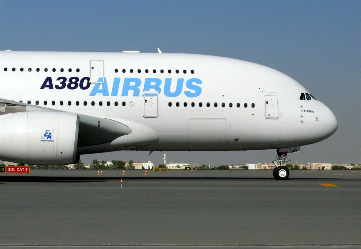 This is a photo of the Airbus A380 on the runway at Dubai International Airport in Dubai, United Arab Emirates for the Dubai Airshow 2007 on 11 November 2007. The plane is about to take off.